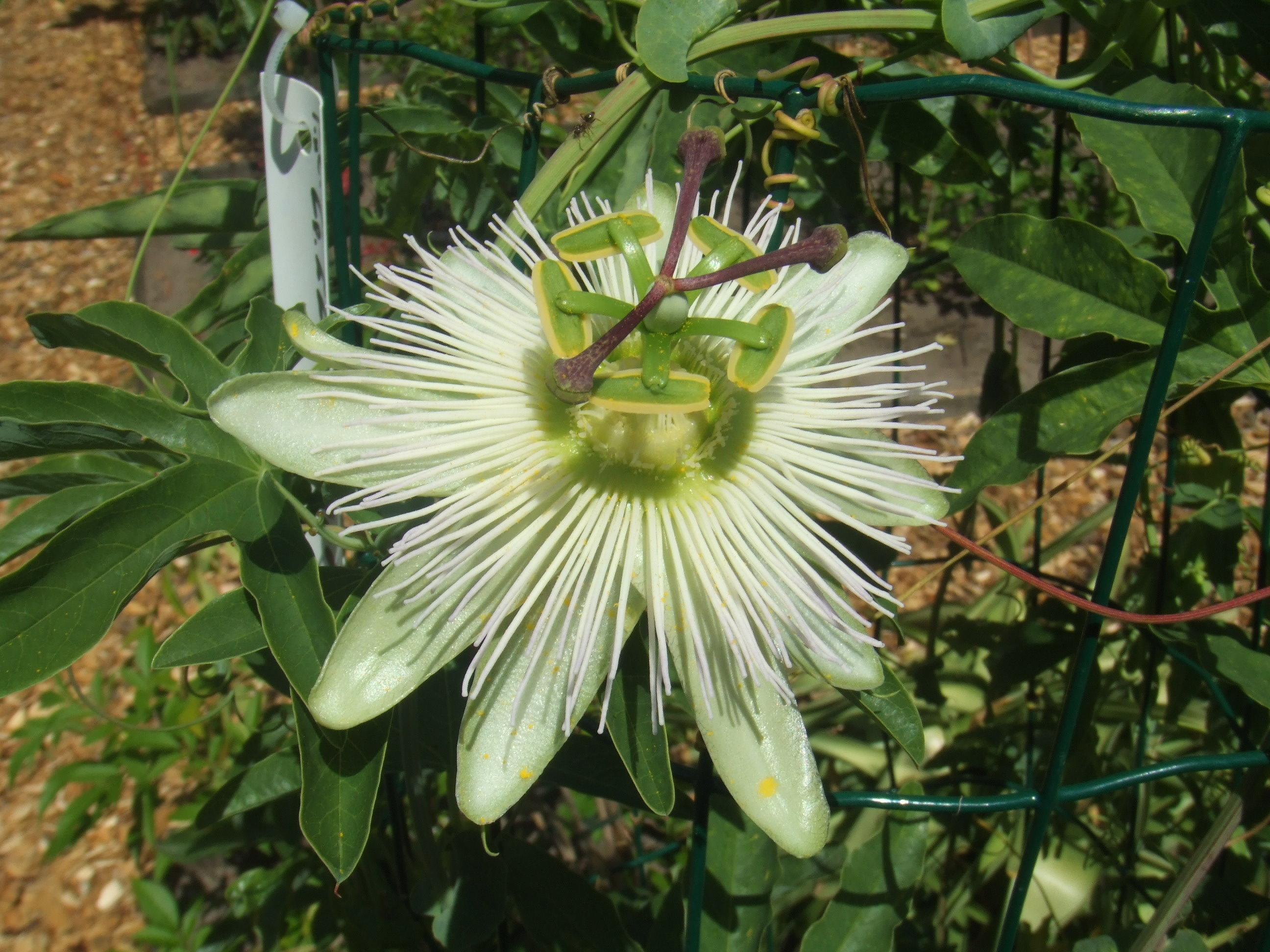 Passiflora caerulea 'Constance Elliott', picture taken at the Passiflorahoeve in Harskamp, The Netherlands